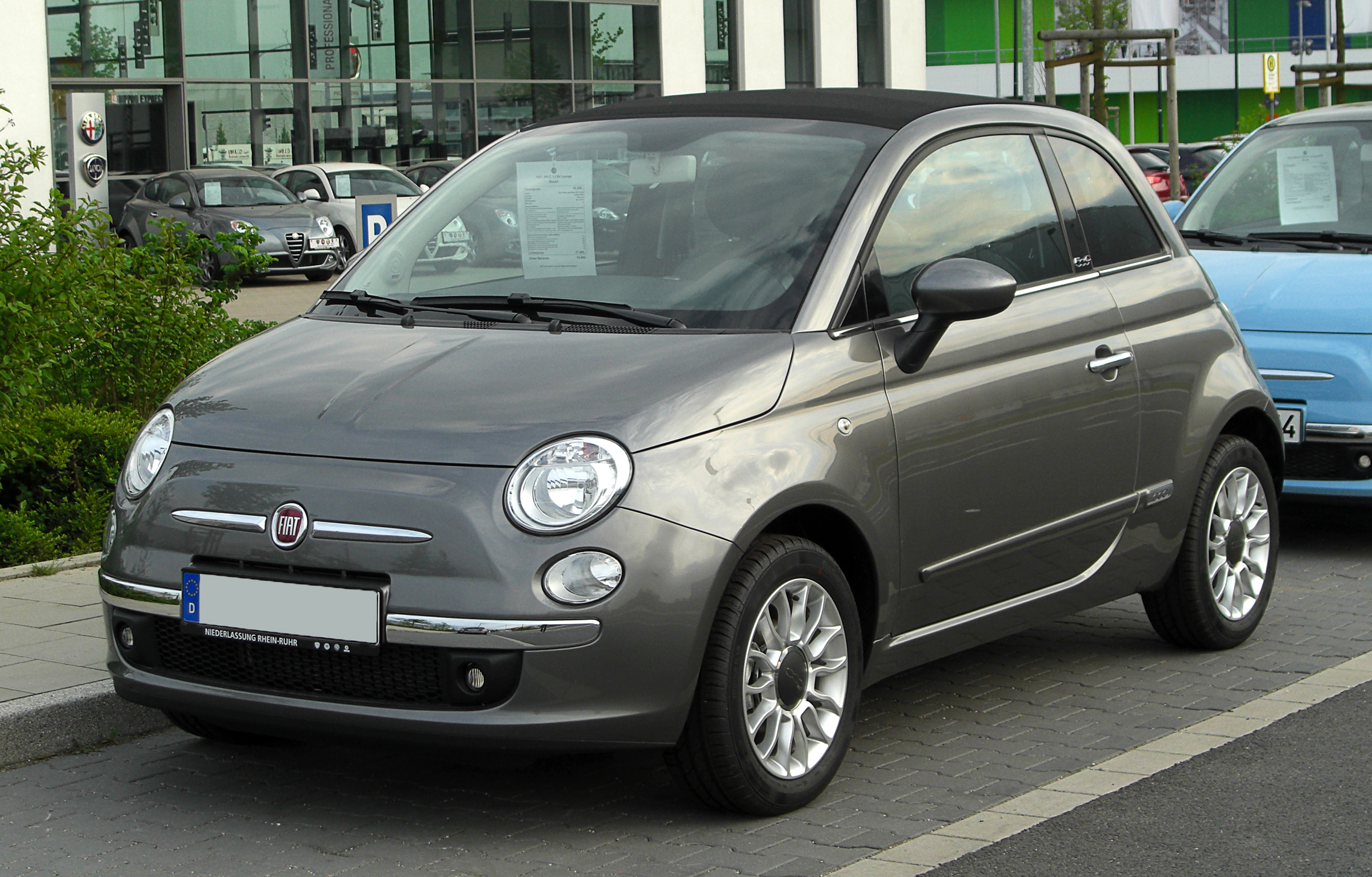 Fiat 500C 1.2 8V Lounge